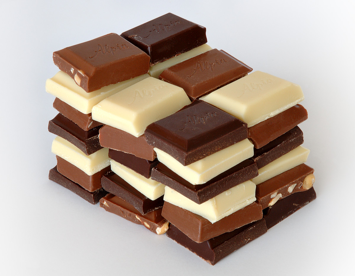 This image shows a stack of chocolate, including milk chocolate, nut chocolate, dark chocolate, and white chocolate.